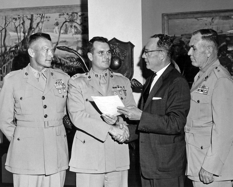 Colonel Robert D. Moser (Head of Marksmanship Traininig Branch, G-3, HQMC), Captain William W. McMillan, General Randolph M. Pate (Commandant of the Marine Corps) and Brigadier general Chester R. Allen (Assistant Quartermaster General). McMillan is presented Letter of Appreciation following the International shooting match in Moscow, 1958.